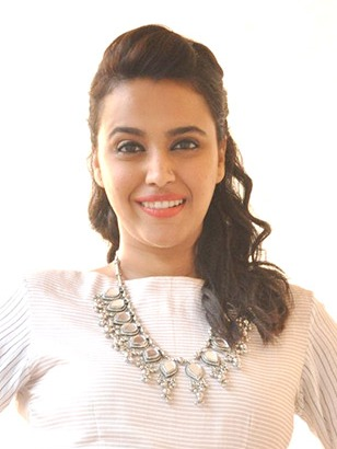 Swara Bhaskar promotes her movie Nil Battey Sannata